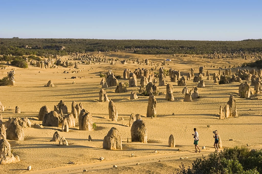 Looking across a small part of the PInnacles, from the lookout.